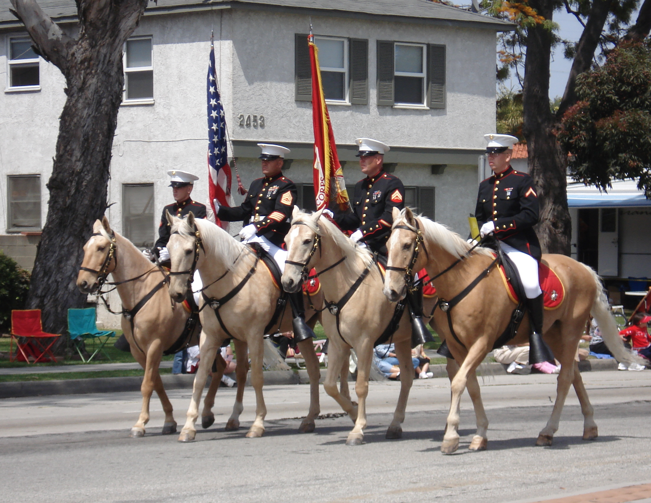 United States Marine Corps unit in the Torrance Armed Forces Day Parade